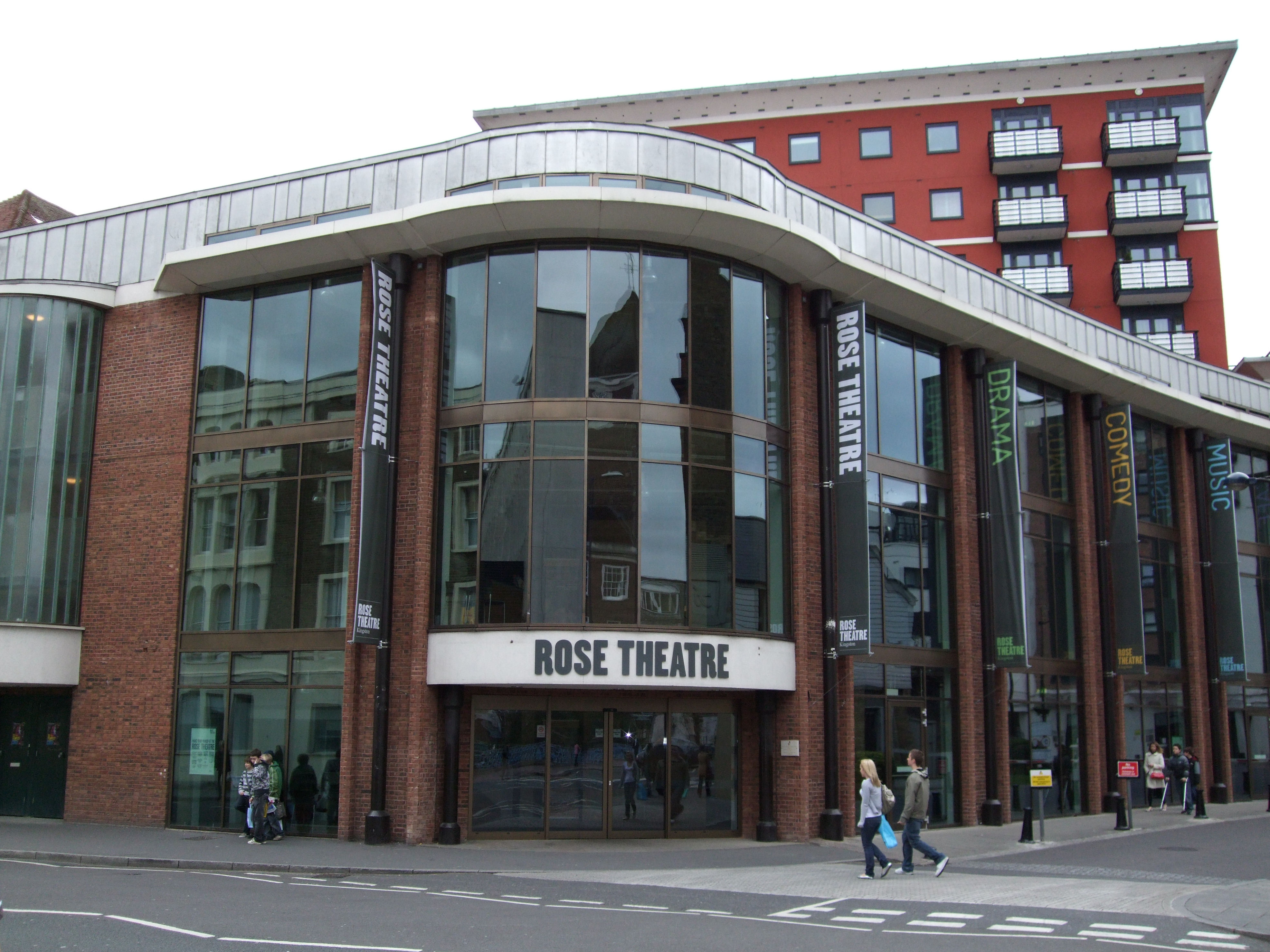 The Rose Theatre, Kingston is a community theatre on Kingston High Street in the Royal Borough of Kingston upon Thames. The theatre is also known as the Rose of Kingston Theatre and seats 1,000 around a wide, lozenge shaped stage. It officially opened on 16 January 2008 with Uncle Vanya by Anton Chekhov, with Sir Peter Hall directing.